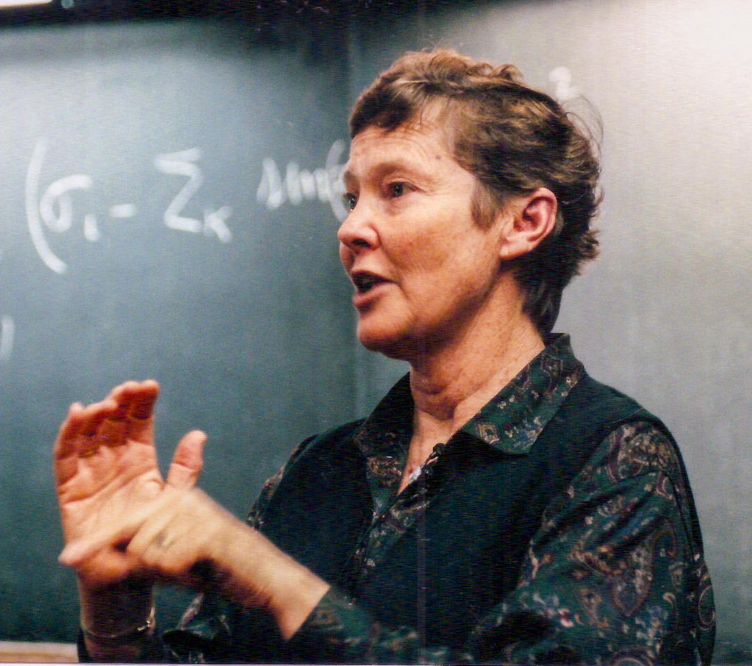 Helen Quinn Lectures at Dirac Medal Ceremony, 2000. Helen was awarded the 2000 Dirac Medal of the International Center for Theoretical Physics, Trieste, Italy (with Howard Georgi and Jogesh Pati) "for pioneering contributions to the quest for a unified theory of quarks and leptons and of the strong, weak, and electromagnetic interactions". She was the first woman to receive the Dirac Medal.